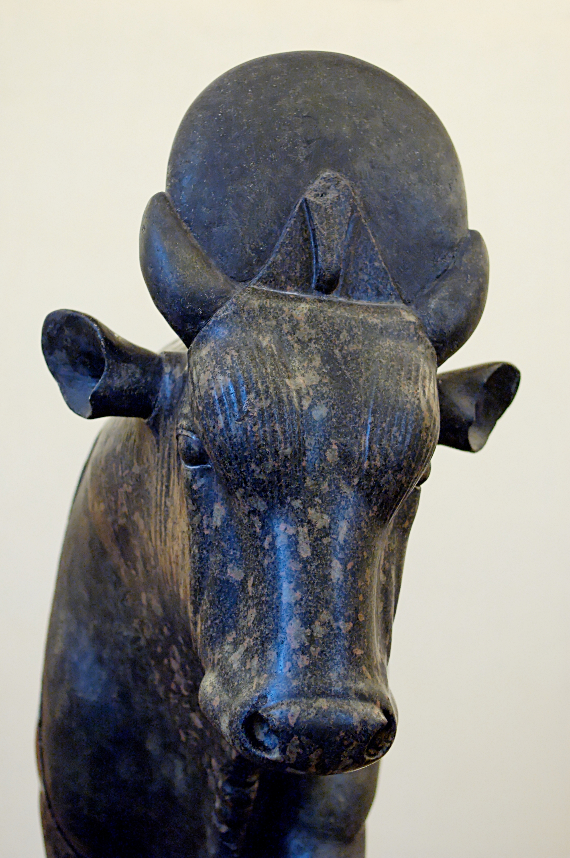 So-called “Brancaccio Bull”: the bull-god Apis holding the solar disk and the uraeus. Granodiorite, Egyptian artwork from the Ptolemaic Era (2nd century BC), brought to Rome in the Imperial Era. Found in 1886 in the area of the Horti Mæcenatiani, on the Esquiline Hill.